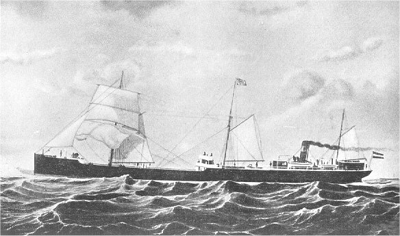 Glückauf: the very first oil tanker